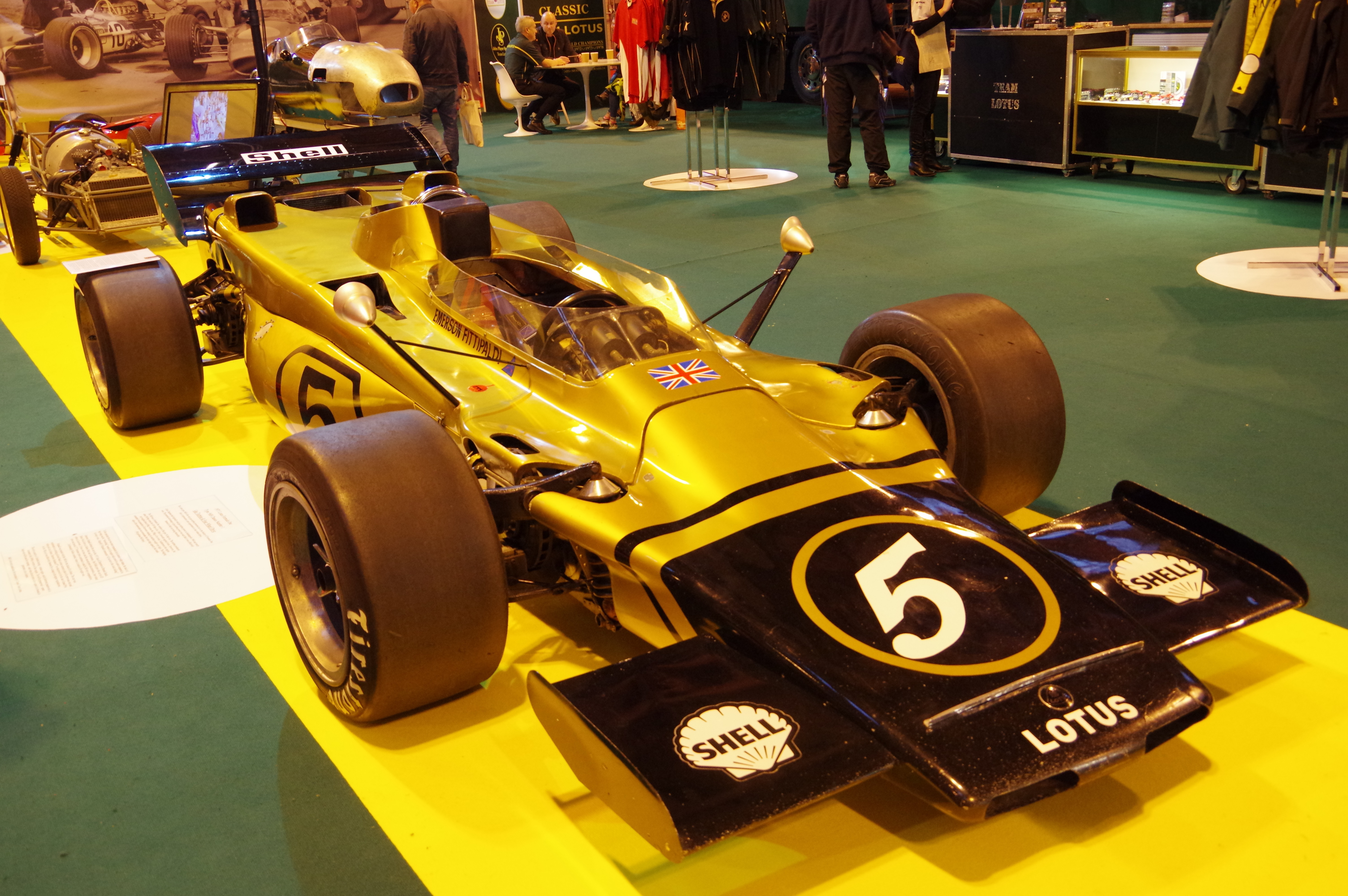 The only Gas Turbine car in the history of Formula 1. It also represents a rare experiment with Four Wheel Drive. It raced at the Zandvoort and Monza Grand Prix before being banned Autosport International Racing Car Show